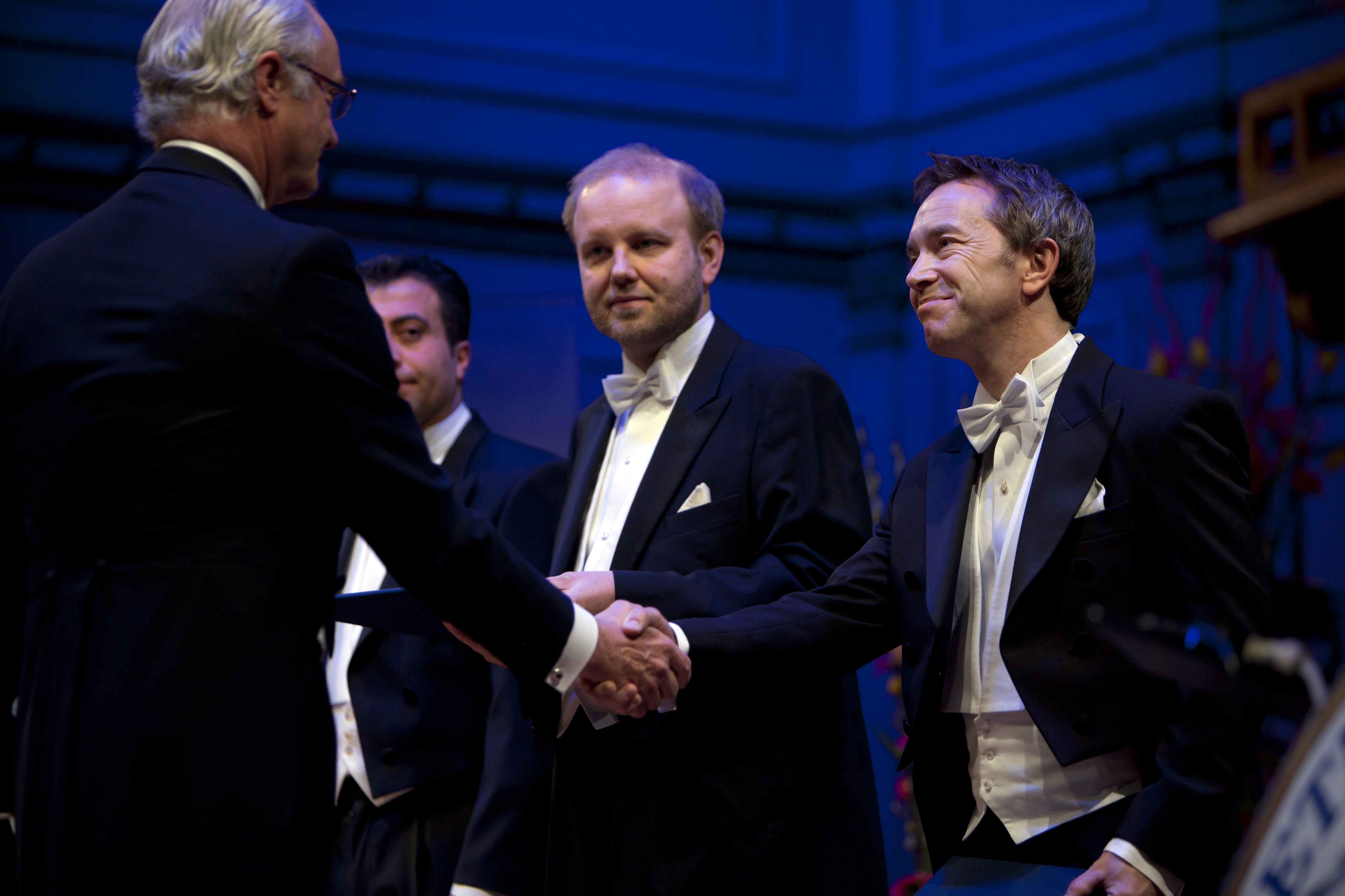 Ceremonial Meeting of the Royal Swedish Academy of Sciences, award ceremony of the Göran Gustafsson prizes 2011 by Carl XVI Gustaf of Sweden: Torkel Klingberg, in the background Jussi Taipale